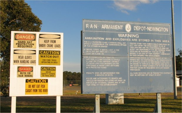 ..and after you've done everything else on the sign, don't eat the fish for Monthly Scavenger Hunt group "notice"